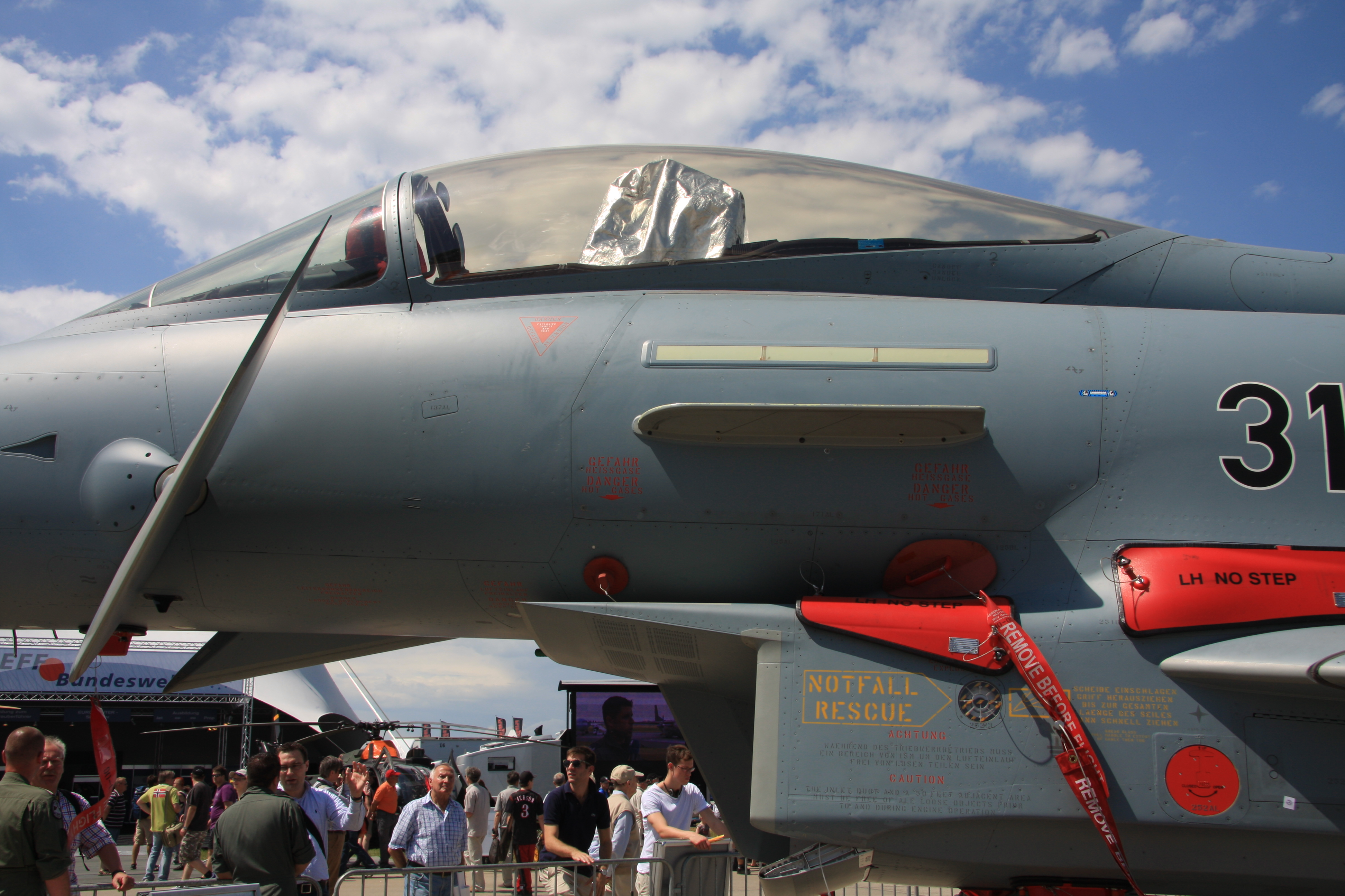 The Cockpit of an Eurofighter of the German Luftwaffe at Berlin Schönefeld Airport (picture taken during the International Air and Space Exhbition).